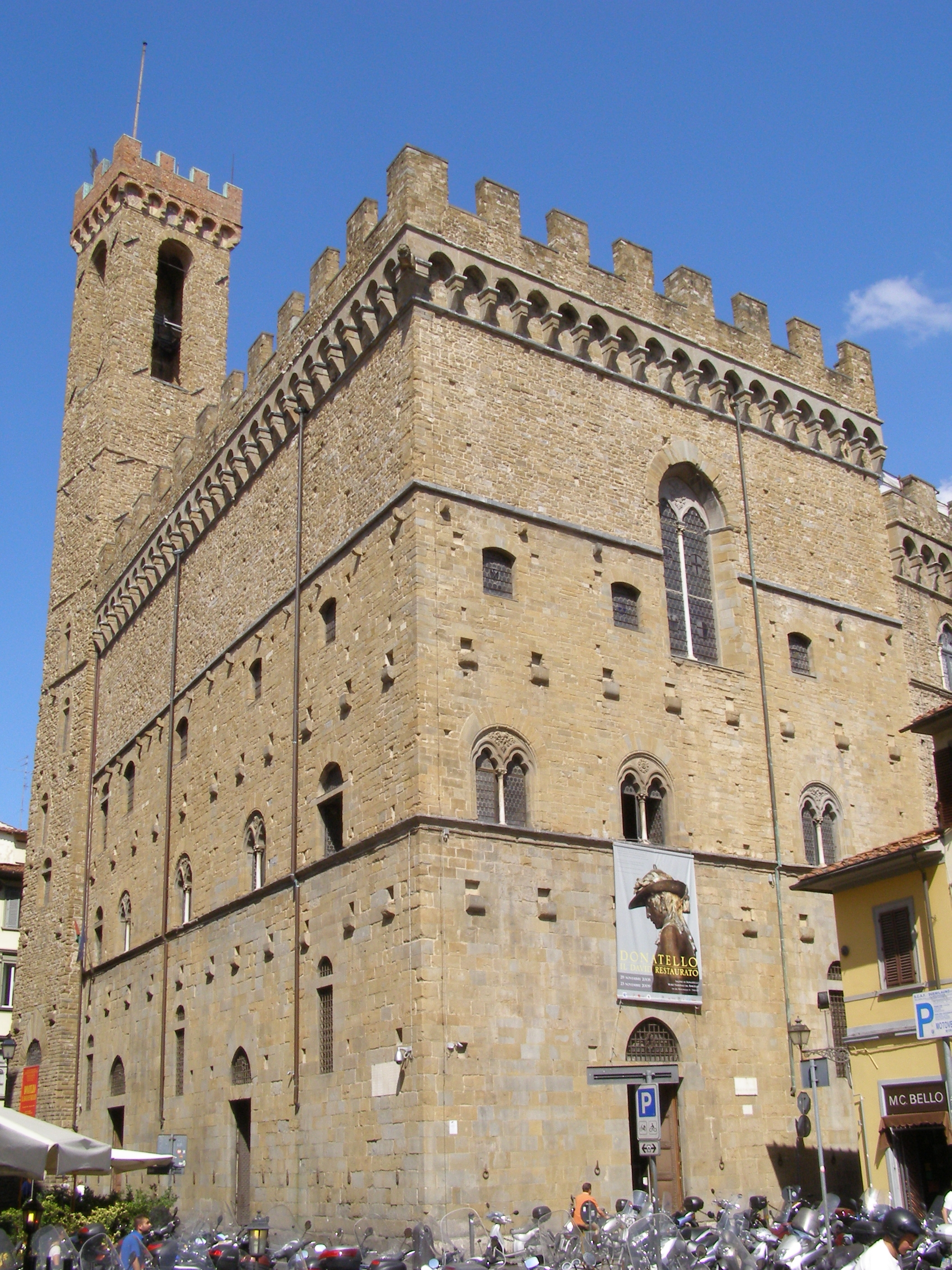 Florence - Bargello Palace